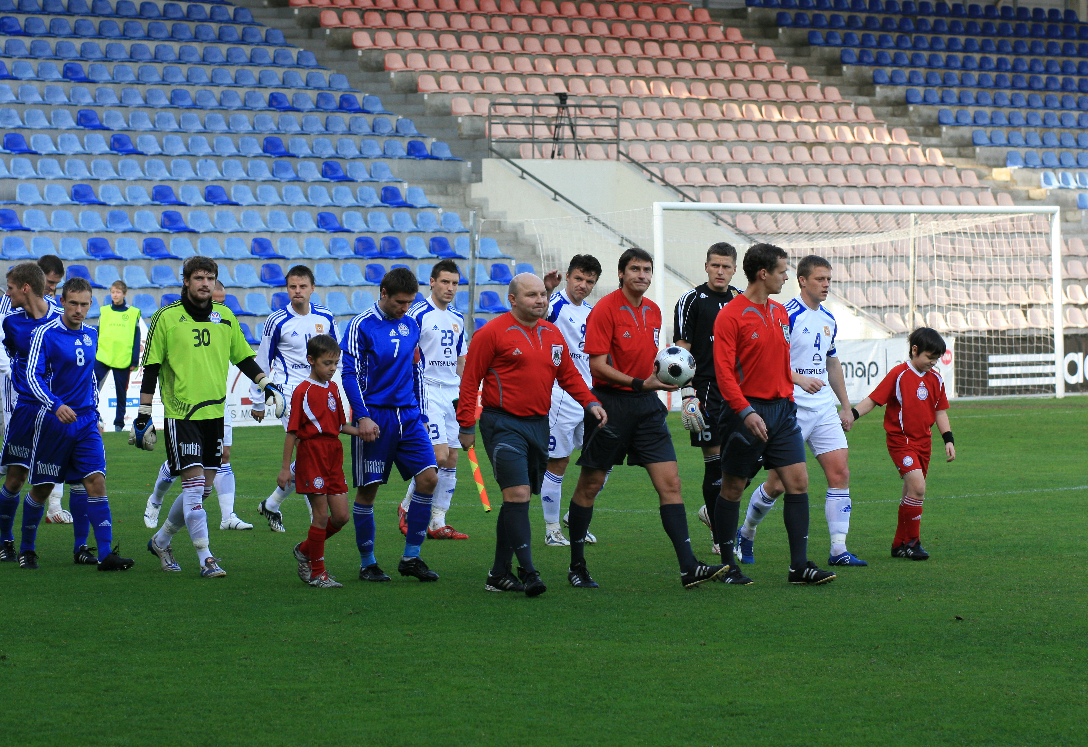 Before Virslīga match Skonto FC - FK Ventspils